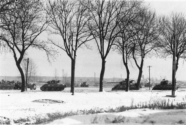 714th Tank Batallion moving from Bischweiler to Drusenheim